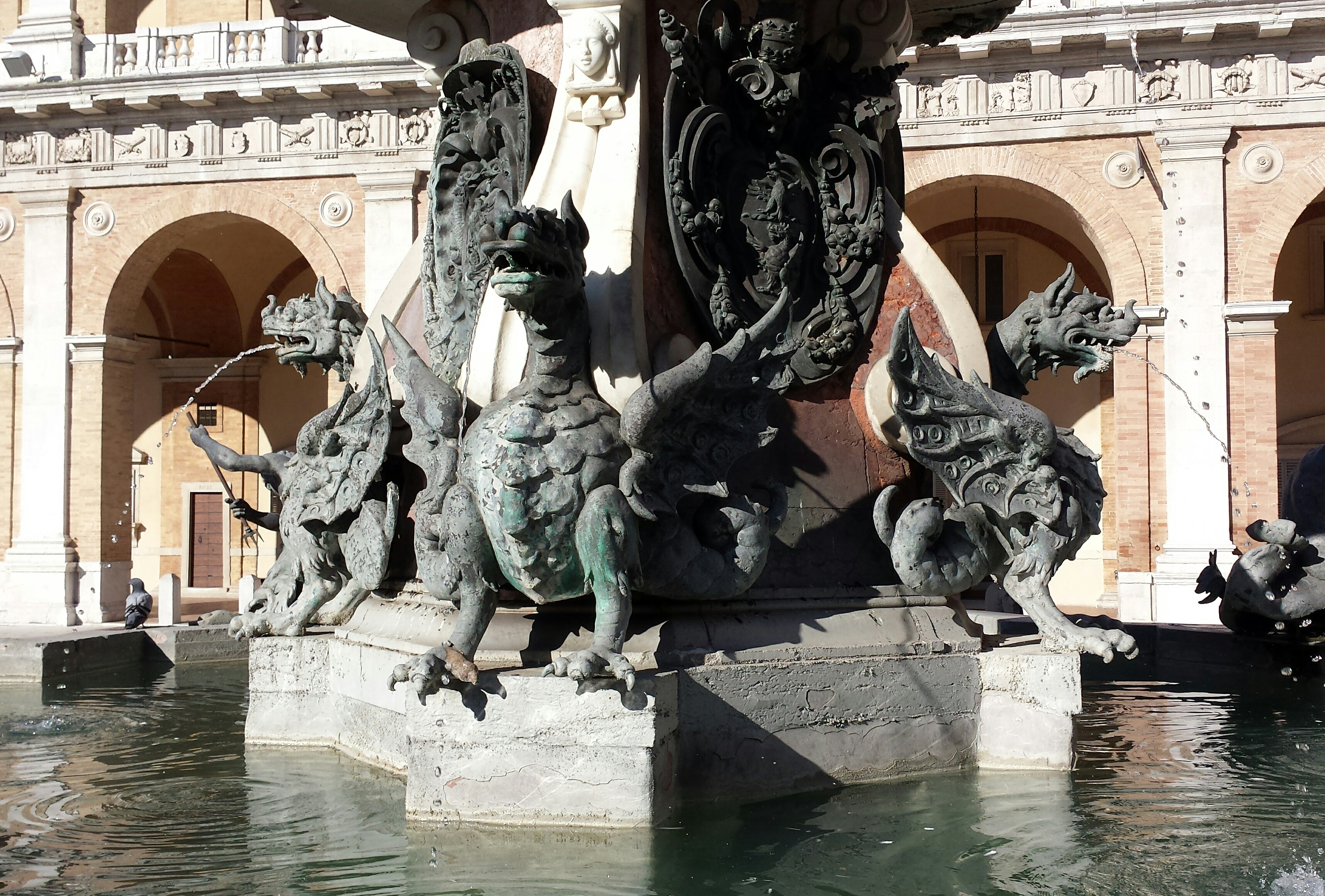 Tarquinio e Pietro Paolo Iacometti Draghi slati (1622) Aggiunta alla Fontana della Madonna (1606-14) di Carlo Maderno e Giovanni Fontana Loreto